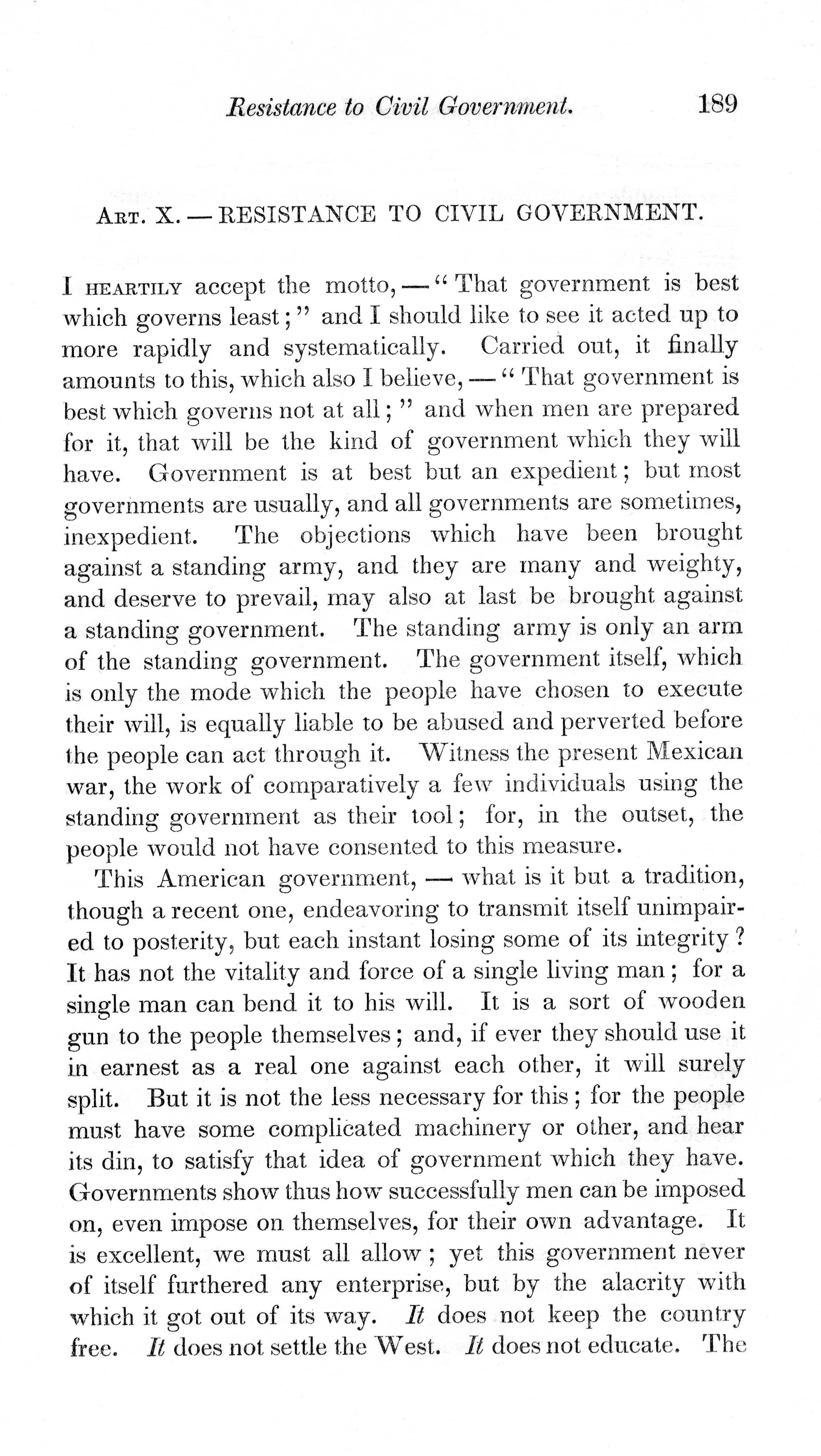 First page of Thoreau, "Resistance to Civil Government", in: Aesthetic Papers, edited by Elizabeth P. Peabody (Boston: The editor; New York: G.P. Putnam, 1849). p. 189.